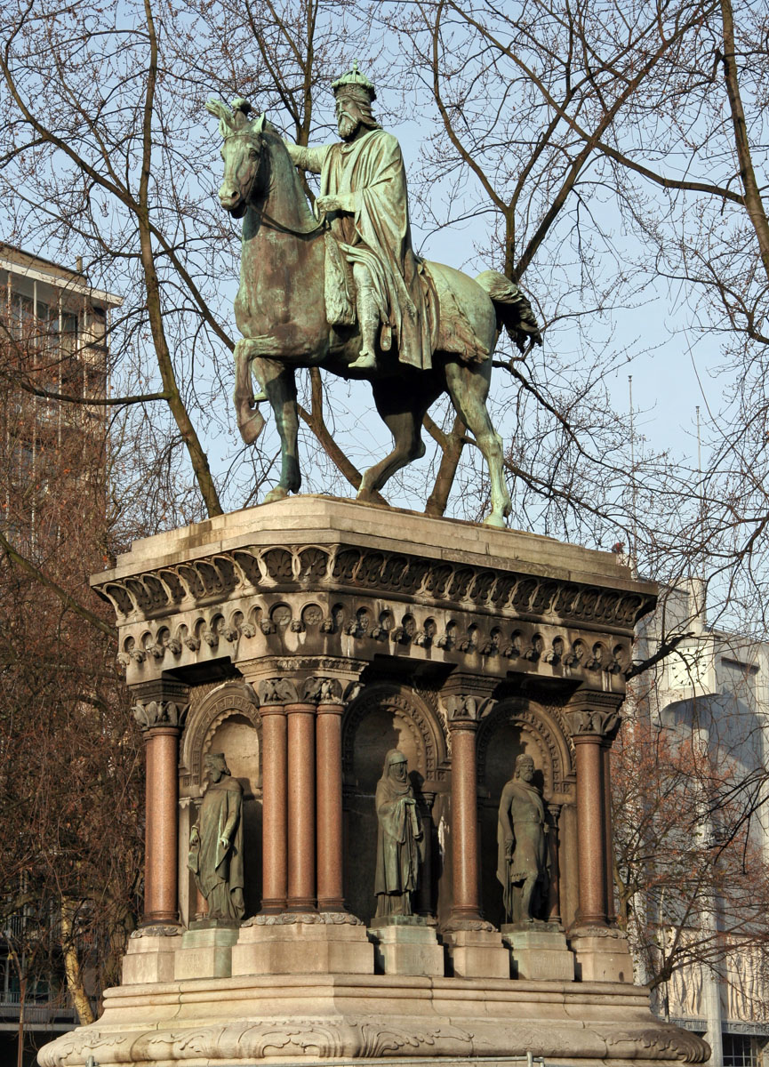 Statue of Charlemagne. All around the base of the statue, you can see smaller statues representing 6 ancestors of Charlemagne who are originated from Liège : Saint Begga, Pepin of Herstal, Charles Martel, Bertruda, Pepin of Landen, Pepin the Younger.